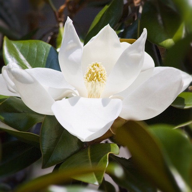 Beauty at the Ford House Office Building; magnolia in bloom.